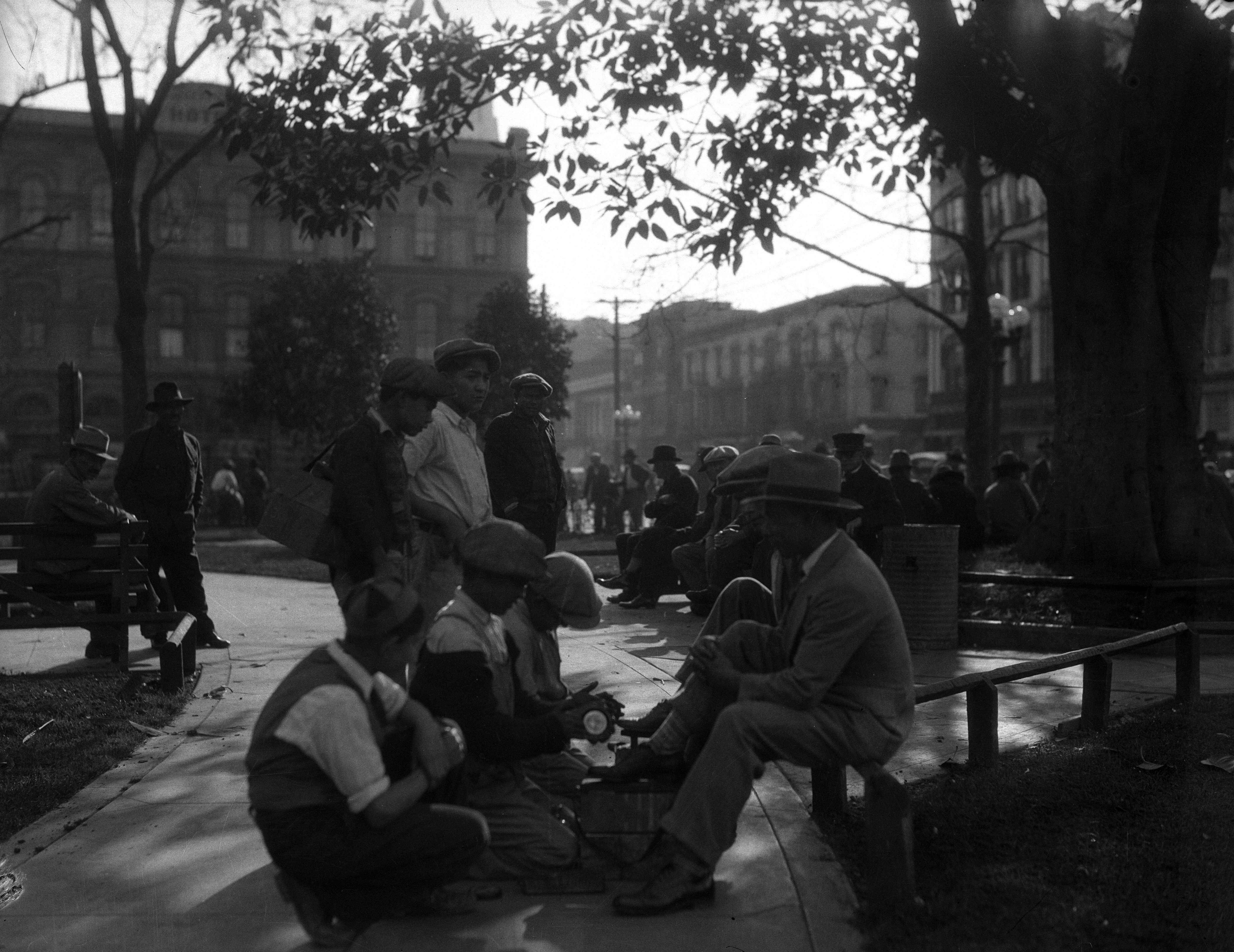 Title: Shoeshine boys working in the Old Plaza of Los Angeles, Calif., circa 1930 Publication:Los Angeles Times Publication date:circa 1930 Source:Los Angeles Times photographic archive, UCLA Library Note about non-renewal of copyright: [1]